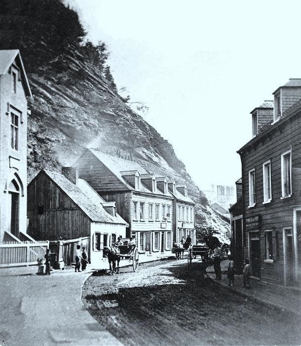 Photograph, Champlain Street below the Citadel, Quebec City, QC, 1865, William Notman (1826-1891), Silver salts on paper mounted on paper - Albumen process - 10 x 8 cm